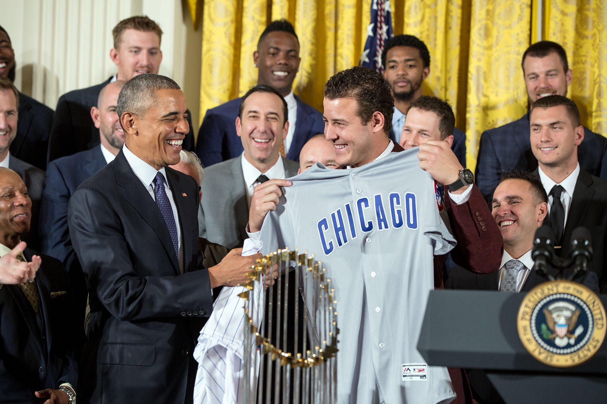 World Series Champions Chicago Cubs visit the White House